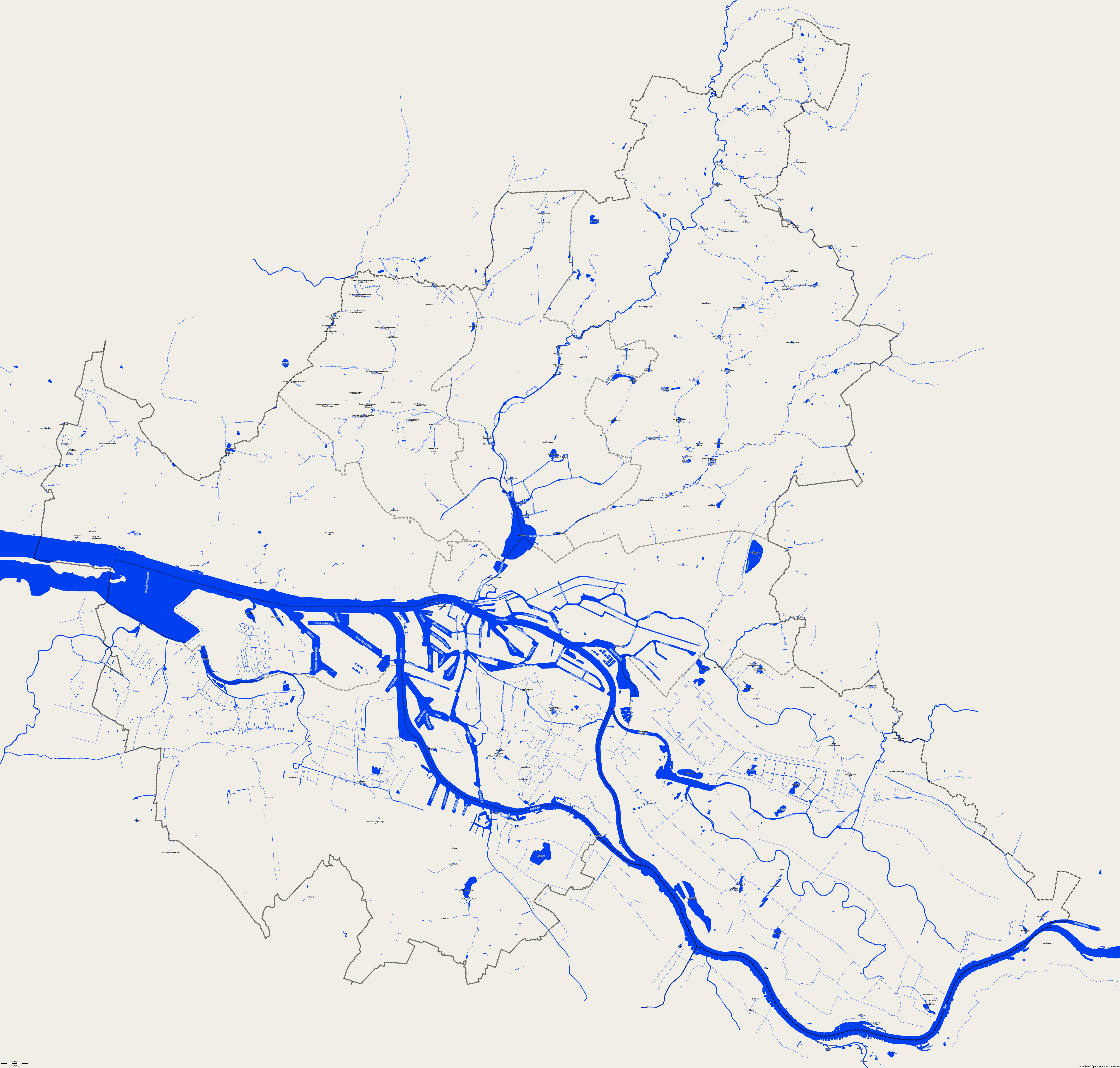 Germany, City of Hamburg. Map of water bodies in Hamburg. Created with Maperitive using OpenStreetMap data. Extraction of data via osmfilter hamburg-latest.o5m --keep="water= waterway=" --keep="natural=water" --keep="landuse=basin" --keep="admin_level=9" --drop-tags="admin_level=10" -o=hamburg_wasser.osm